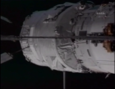 NASA TV screenshot - see watermark in upper right corner. NASA TV content is public domain.